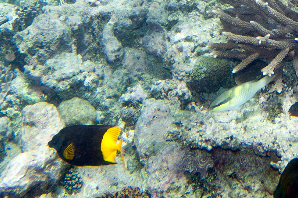 Also called bicolor rabbitfish; on House Reef. We saw these only on the outer reef. The fish to the right is an initial phase egghead parrotfish Scarus oviceps, also called dark-capped parrotfish.